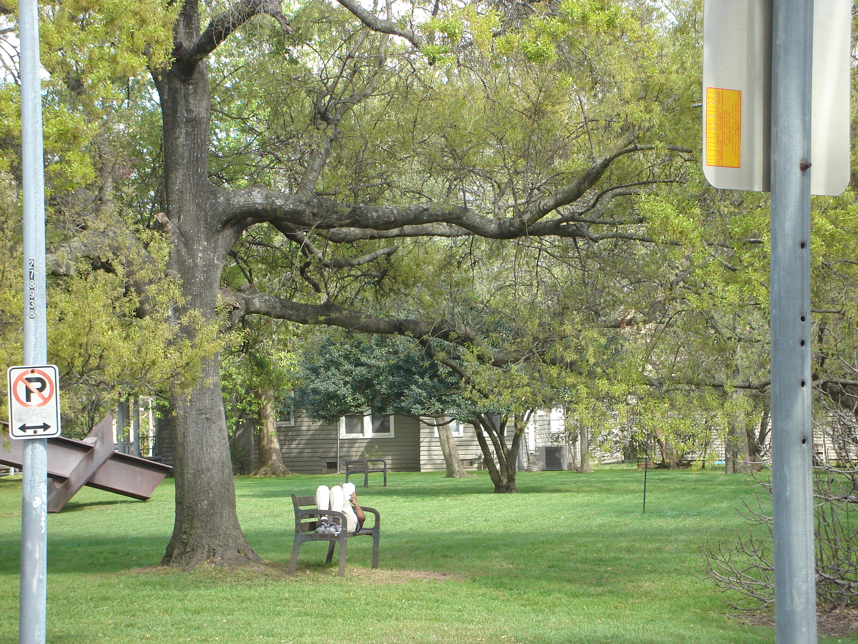 Campus/Pavilions Menil Collection in Houston